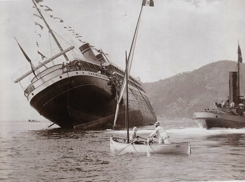 Date: September 22, 1907 Description: The sinking of the ship "Principessa Jolanda" Location: Riva Trigoso, near Genoa, Italy